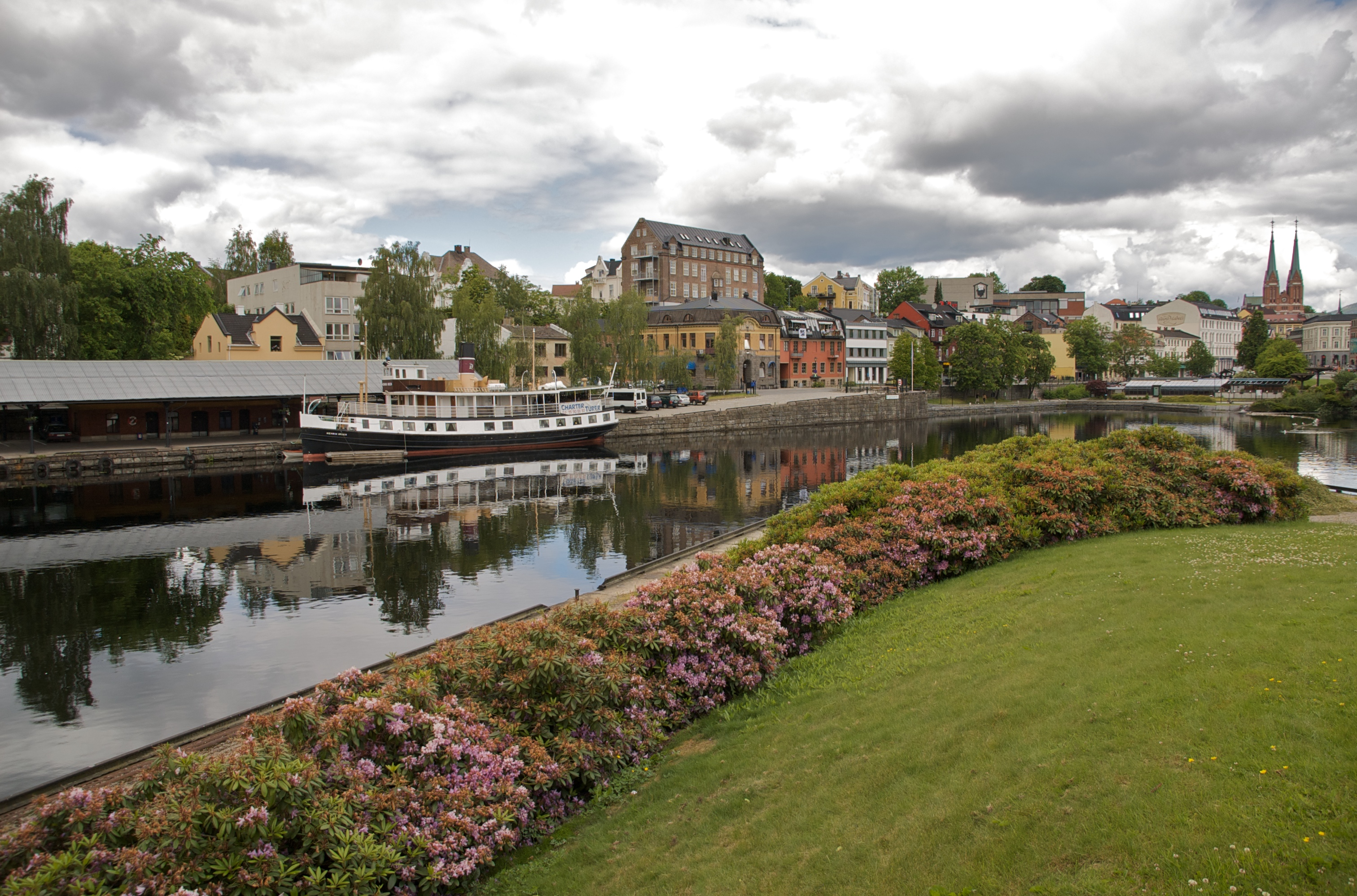 A harbour in the centre of Skien, Norway. The harbour is above sea level, and is accessible from sea level thru a lock.